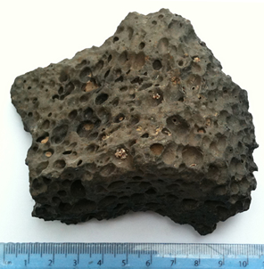 A Cinder found at Amboy crater